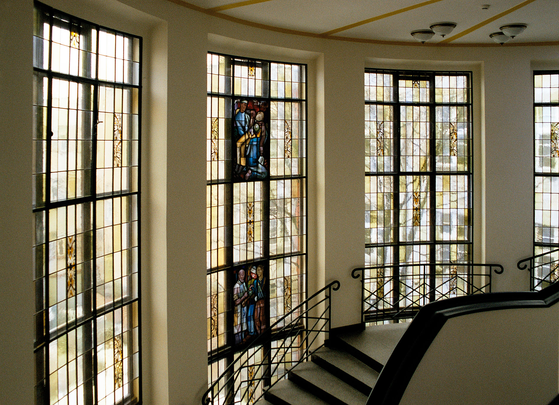 Toruń, staircase in clinic, Uniwersytecka Str., 1928, arch. Kazimierz Ulatowski, stained glass Henryk Jackowski.